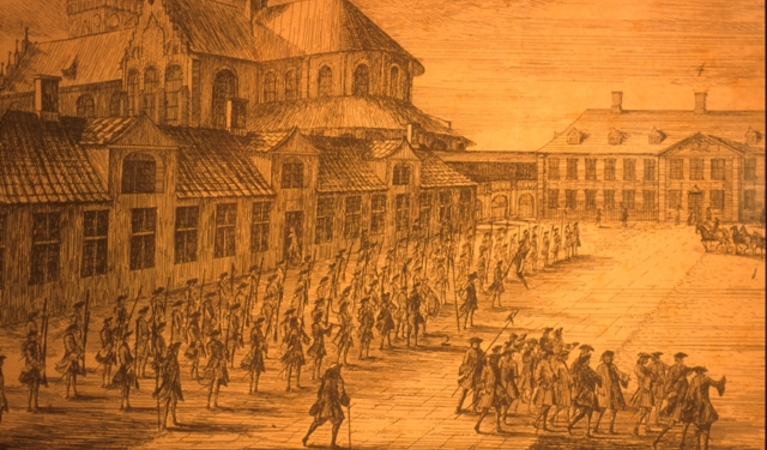 Army troops in the courtyard of Roskilde Royal Mansion in Roskilde, Denmark